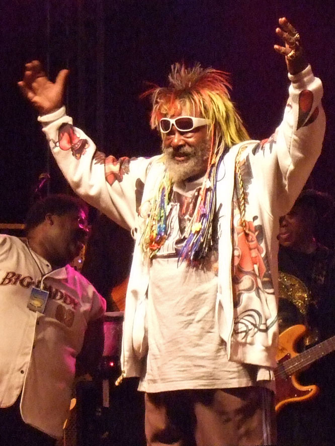 American funk musician George Clinton and his band Parliament Funkadelic performing at the Capitol City Carnival in Centreville, Virginia.